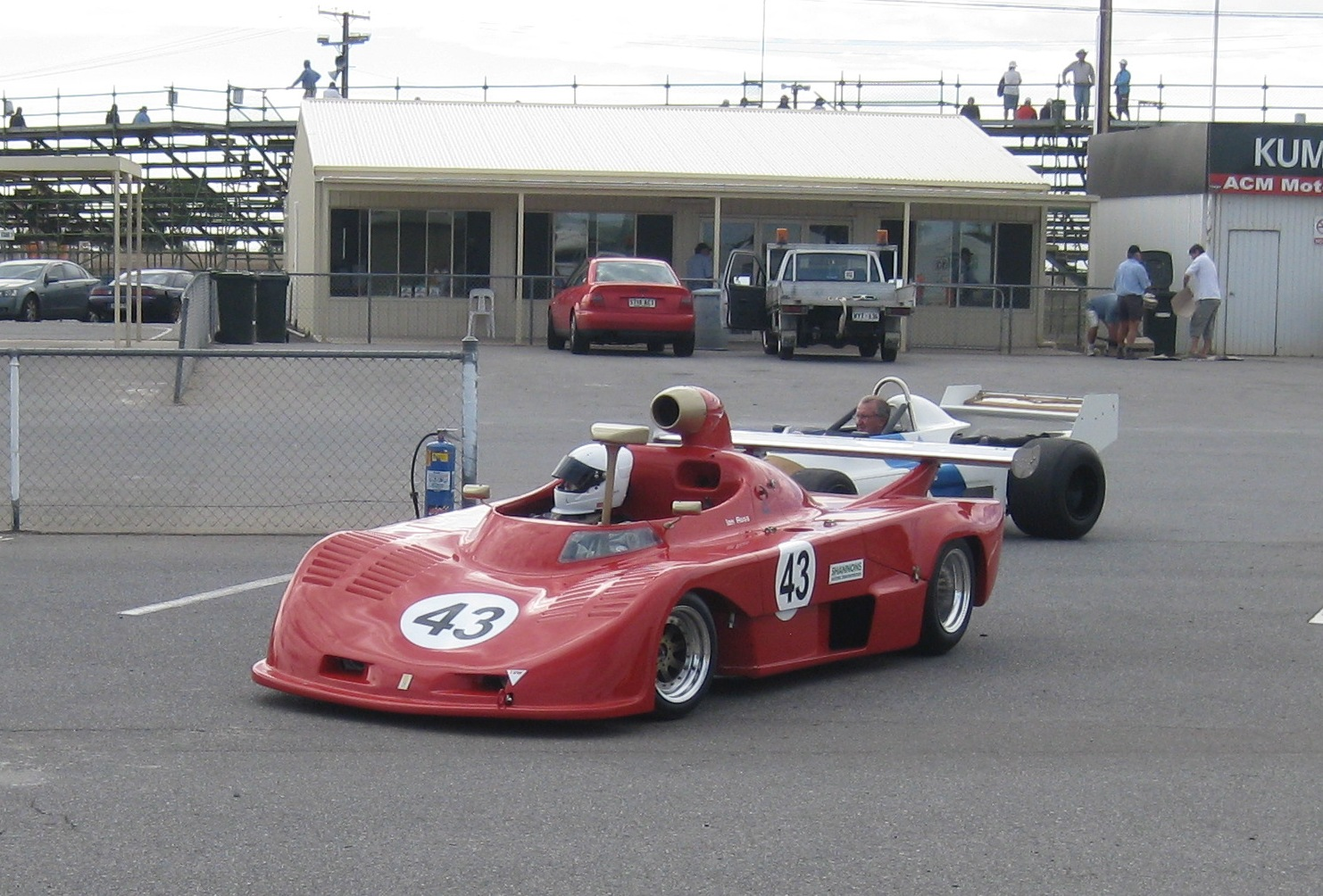 Osella PA5 BMW of Ian Ross at Mallala Motor Sport Park in April 2010. This car, chassis no 58, was built in 1977 for Group 6 racing. Osella earned second place in the 1977 World Championship for Sports Cars with the PA5.